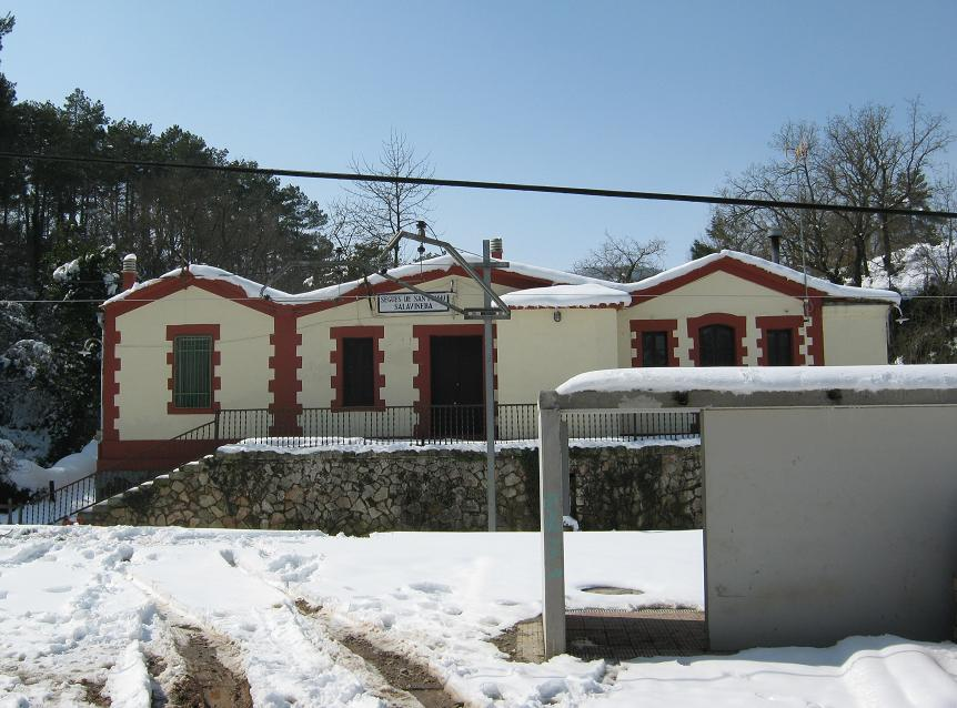 Seguers - Sant Pere Sallavinera railway station three days after march 8 snowfall in Catalonia